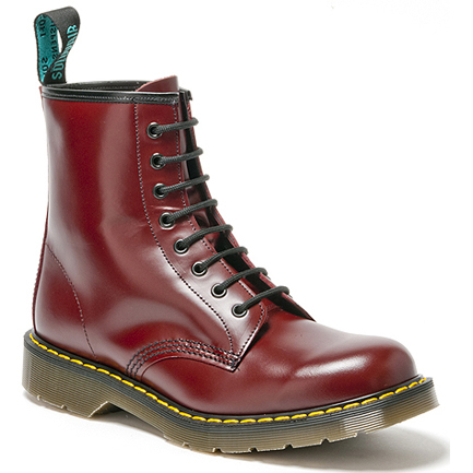 The Original 8 Eyelet Air Cushioned Oxblood Boot, Made in England by NPS (Norhtamptonshire Productive Society) shoes.